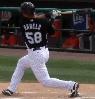 Batting at a spring training game vs the Baltimore Orioles on 2/29/08. I took this picture. 23:45, 29 February 2008 . . Rabbethan . . 320×332 (46 KB)